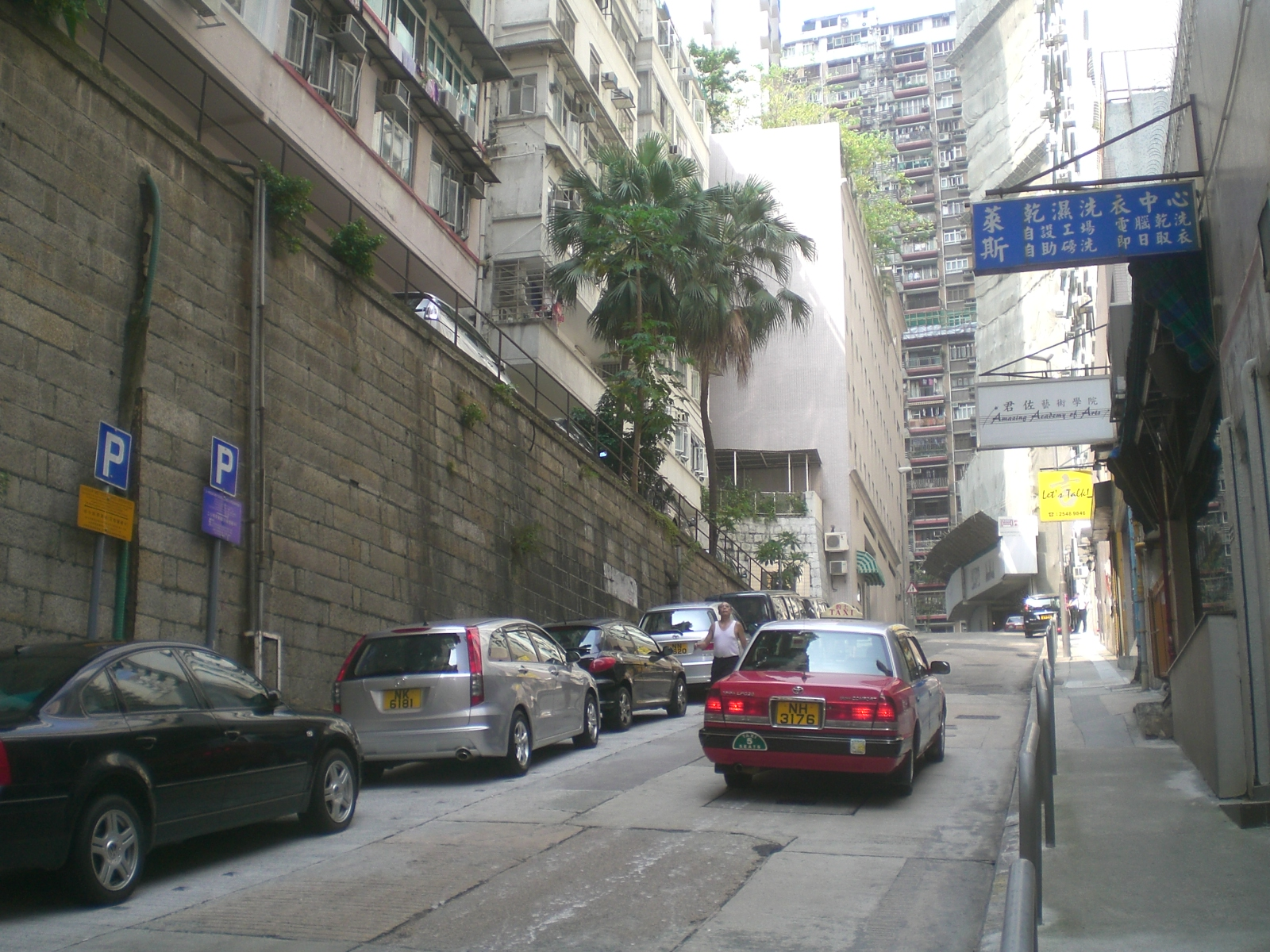 香港島zh:半山區 巴丙頓道 路邊zh:泊車位 石牆